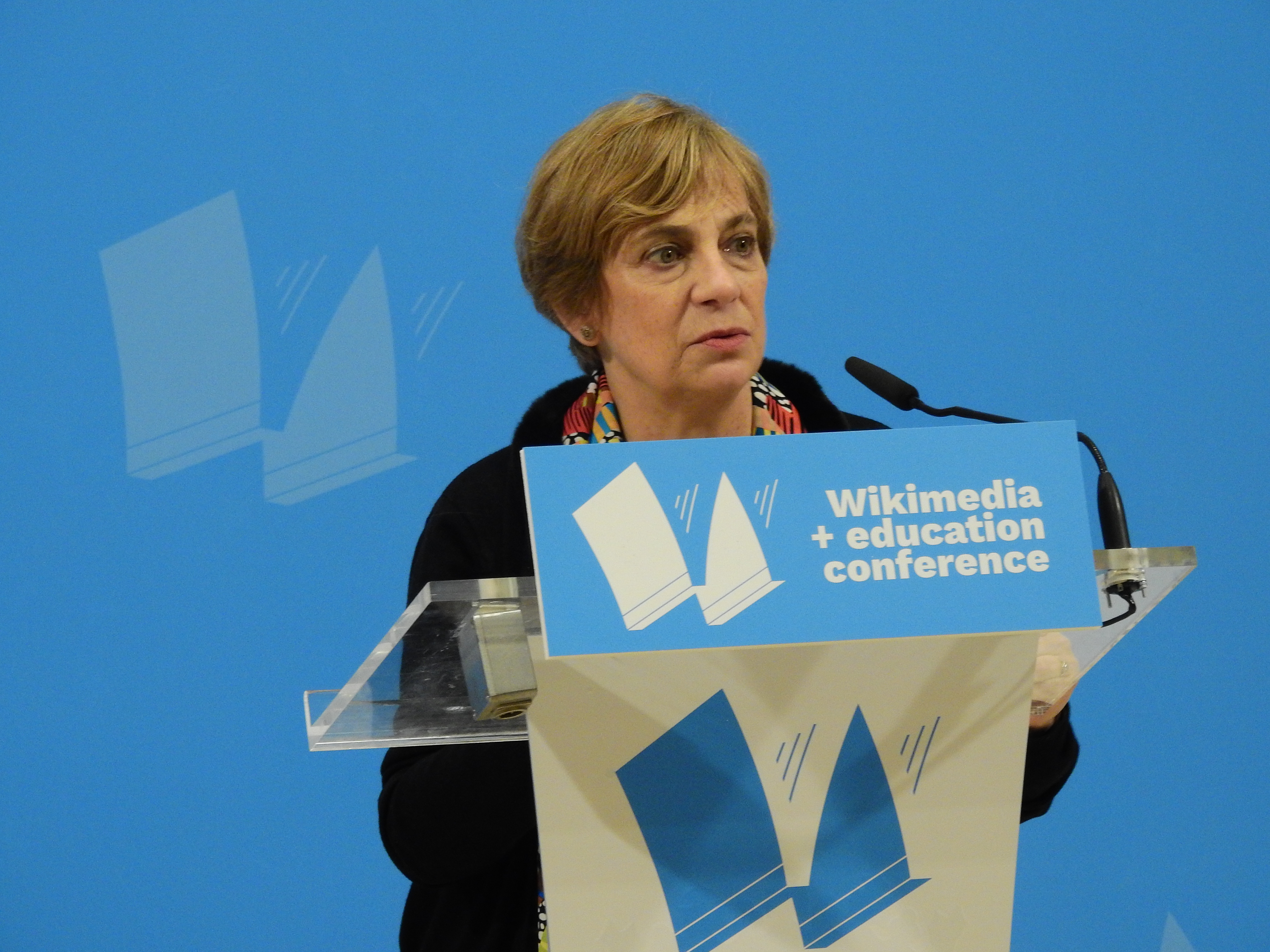 Photographs taken during the Wikimedia+Education Conference 2019